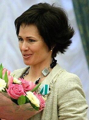 Olga Medvedtseva in Kremlin